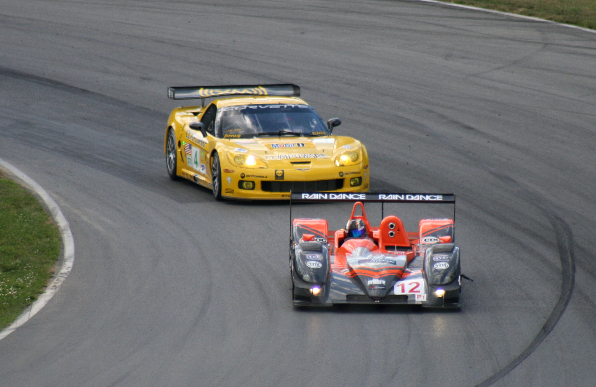 Autocon's Creation CA06/H-Judd leading a Chevrolet Corvette C6.R